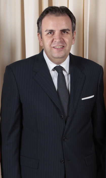 President Barack Obama and First Lady Michelle Obama pose for a photo during a reception at the Metropolitan Museum in New York with Garen Nazarian, Permanent Representative of Armenia to the United Nations, and his wife, Mrs. Siranoush Nazarian.